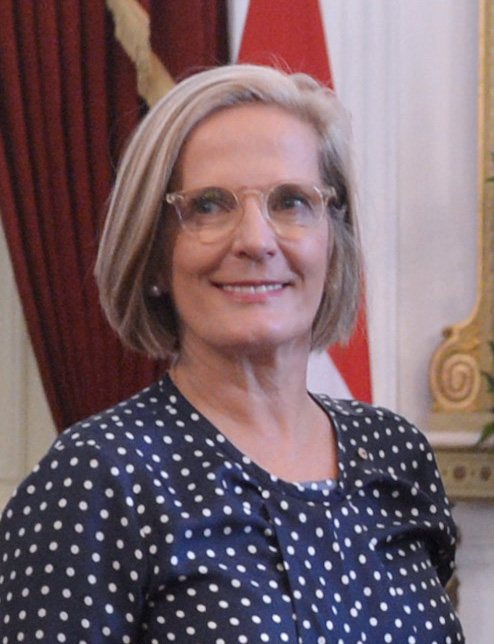 Lucy Turnbull, wife of Australian Prime Minister Malcolm Turnbull, in Jakarta, Indonesia, on November 12, 2015.